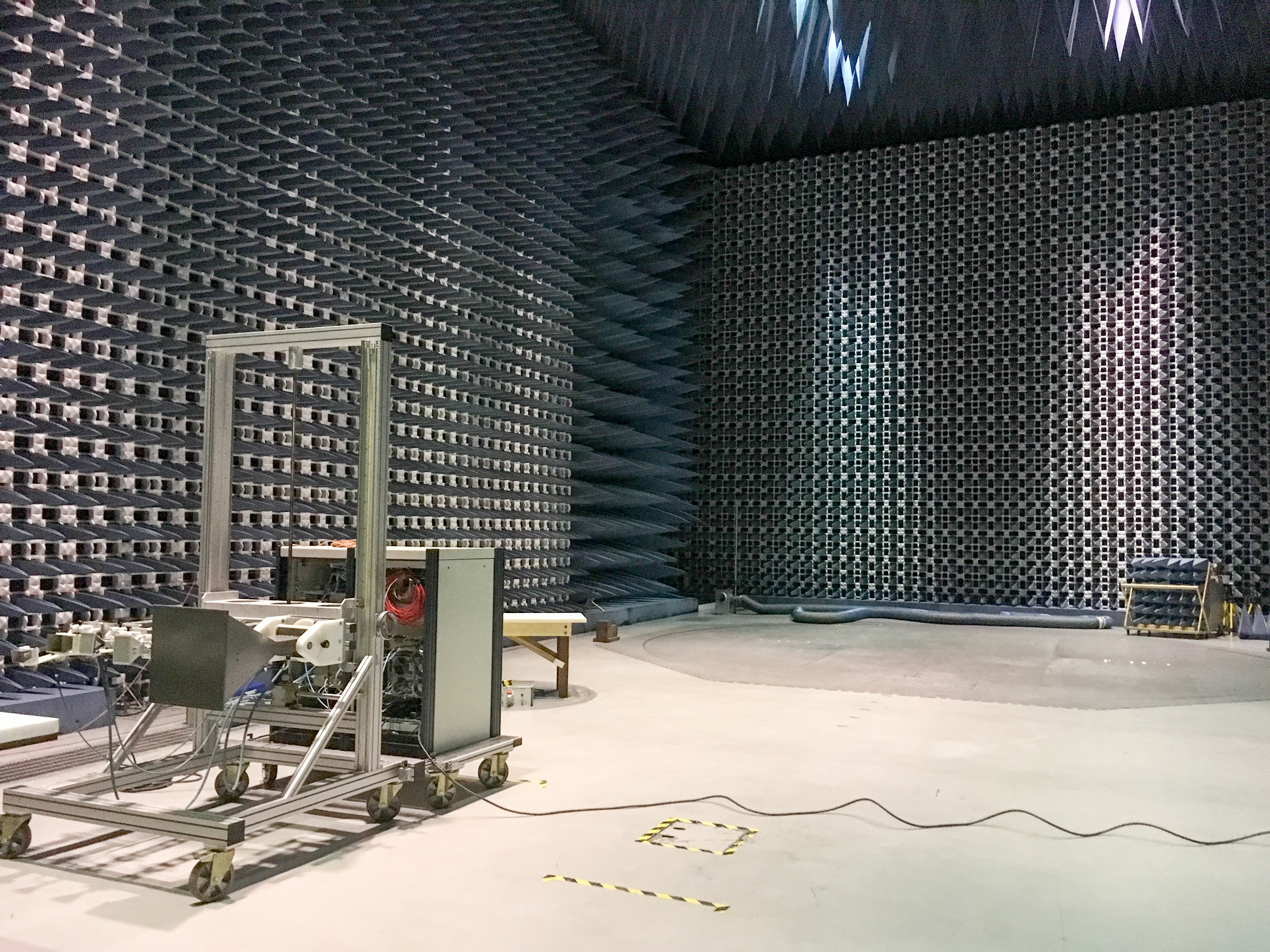 Facilities at INPE, São José dos Campos, Brazil.